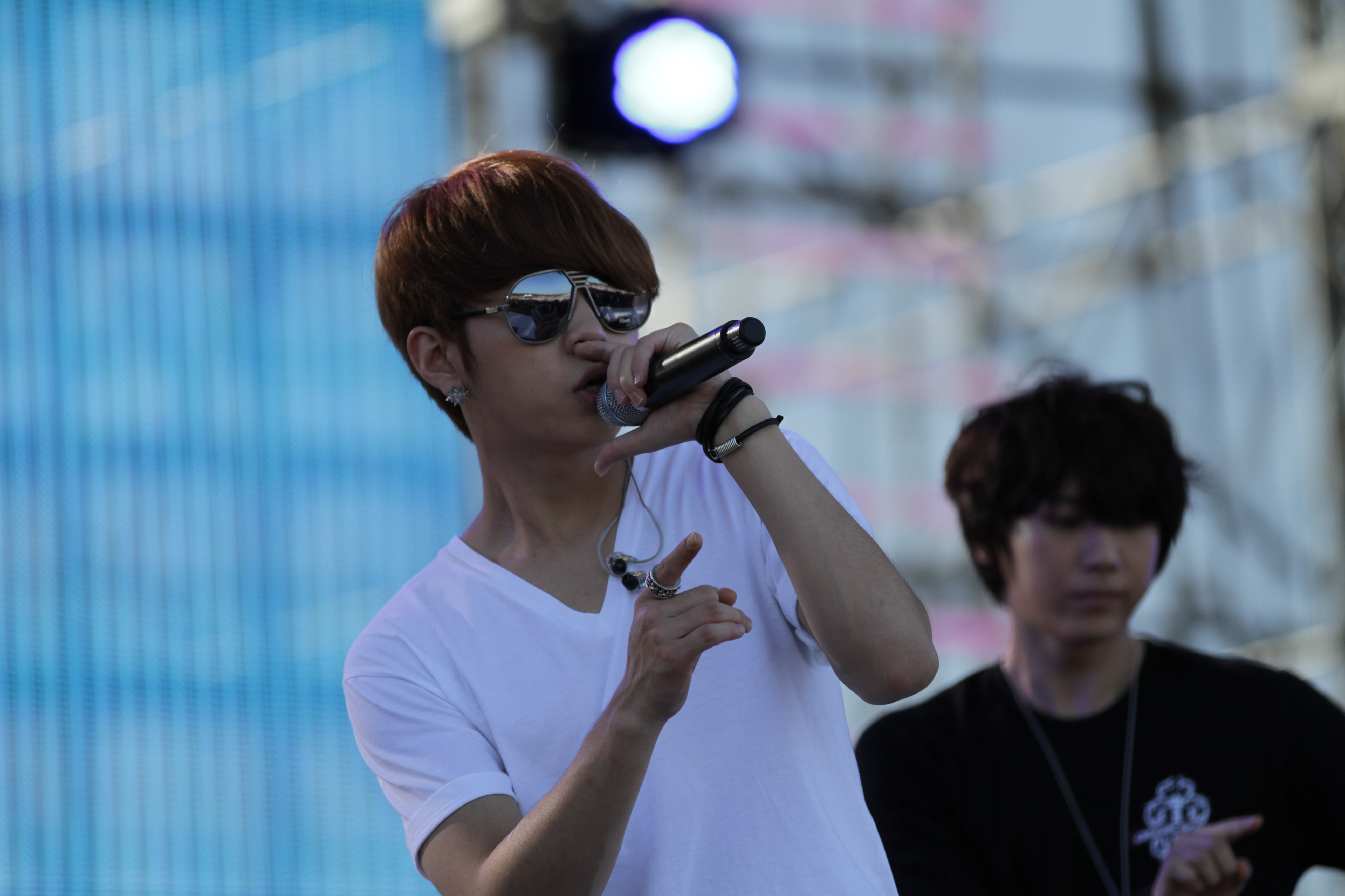 KBS New York Korean Festival rehearsal, B2ST Yong Jun-hyung and Jang Hyun-seung performing.